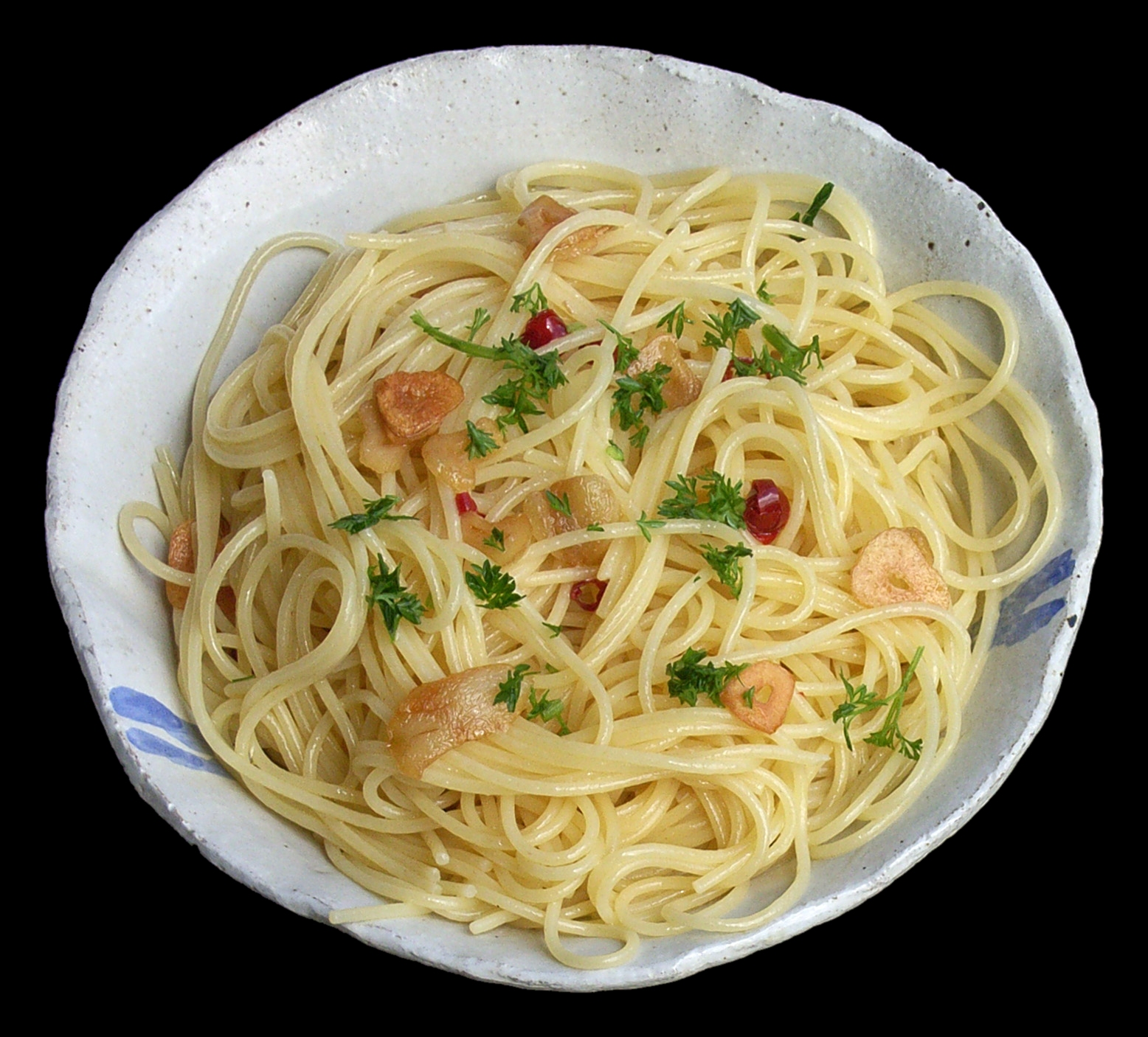 Retouched version of File:Spaghetti aglio olio e peperoncino by matsuyuki.jpg, which has the following description: Spaghetti, I cooked. Spaghetti with garlic, oil and chilli.